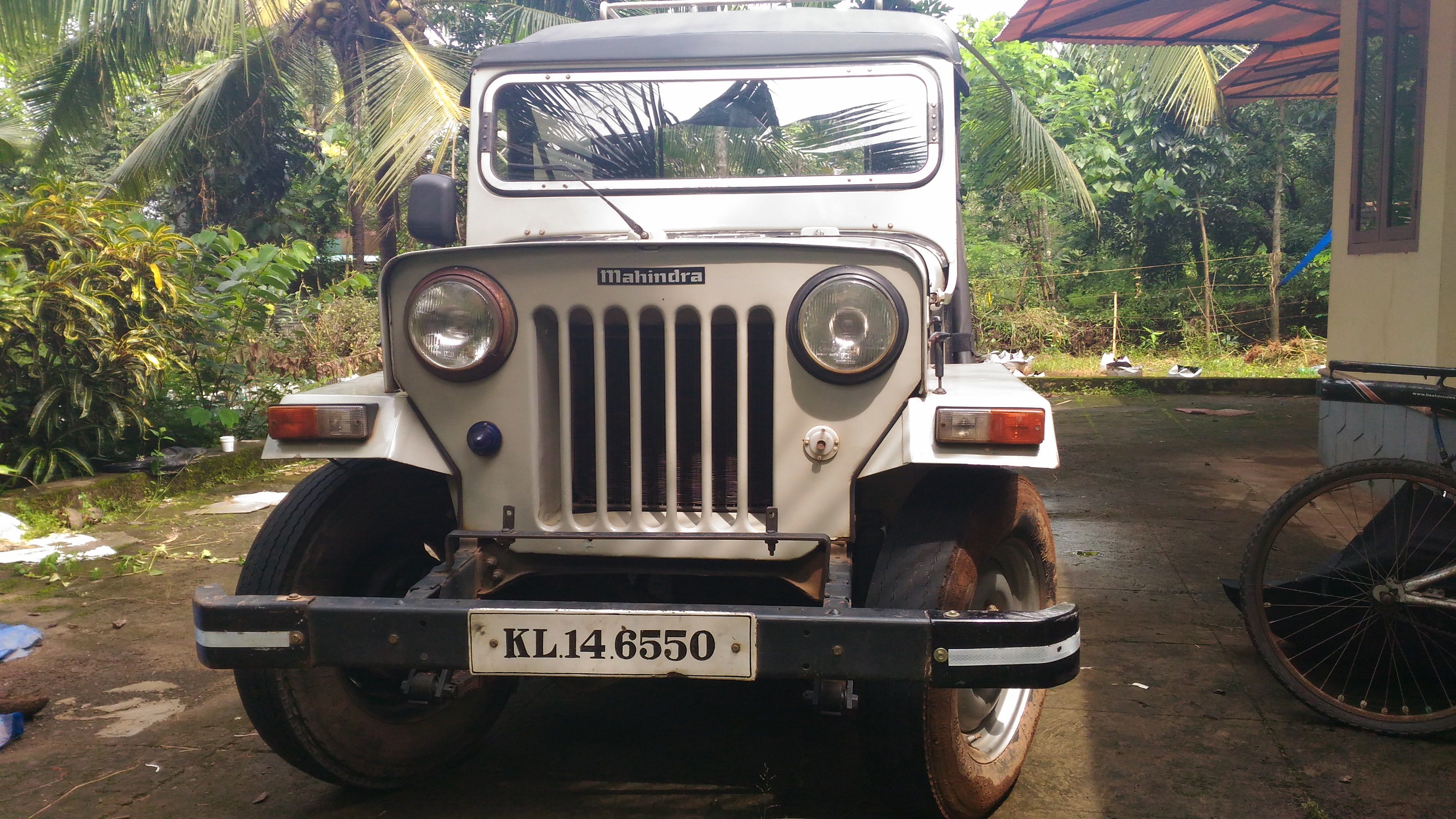 Jeep_front view